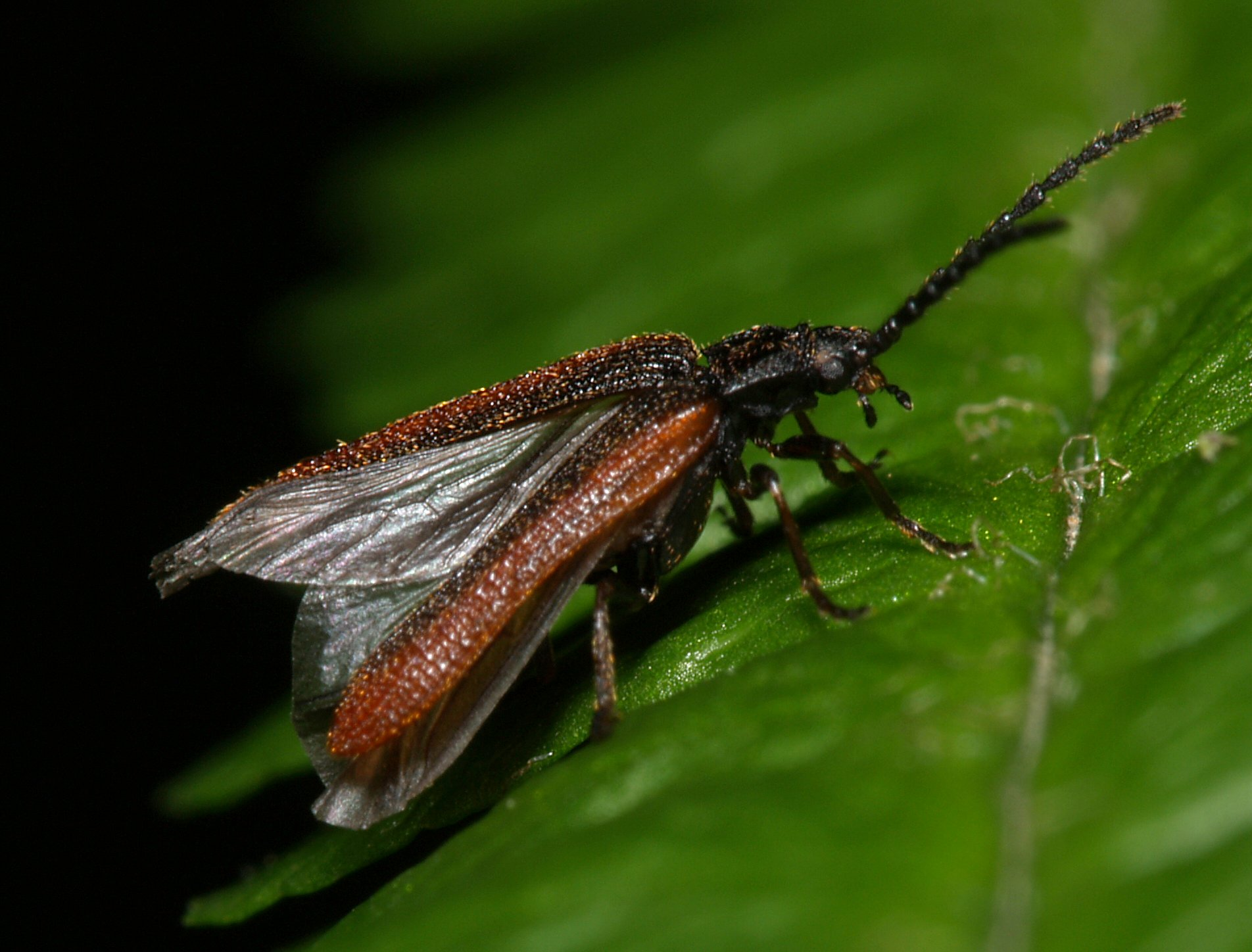 Omalisus fontisbellaquaei from "Königsforst" nature reserve in Cologne, Germany.